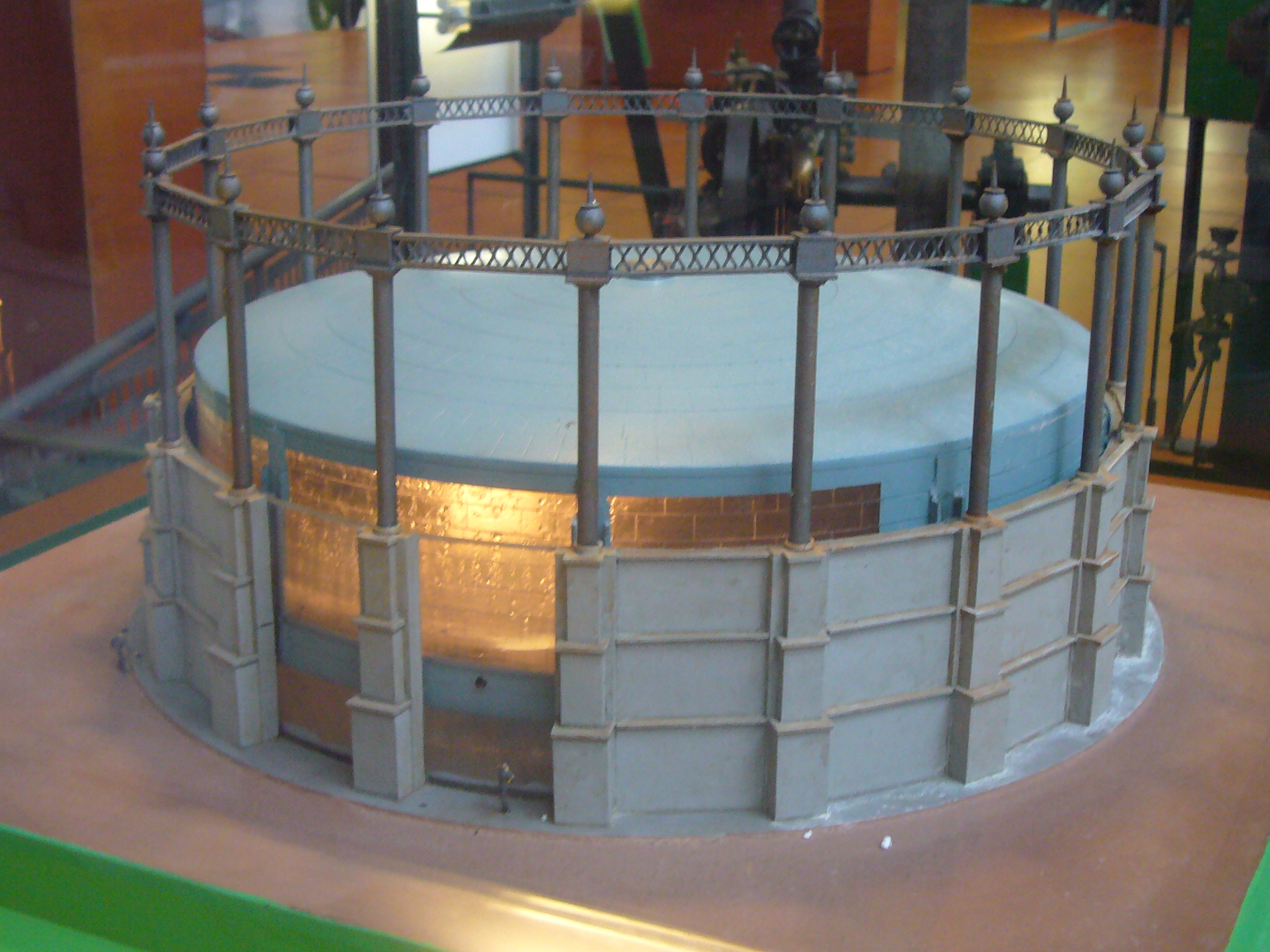 Model of a gasometer or gasholder used to store gas, which was kept above a water bed. Was built in la Barceloneta, Barcelona. 35 m diameter